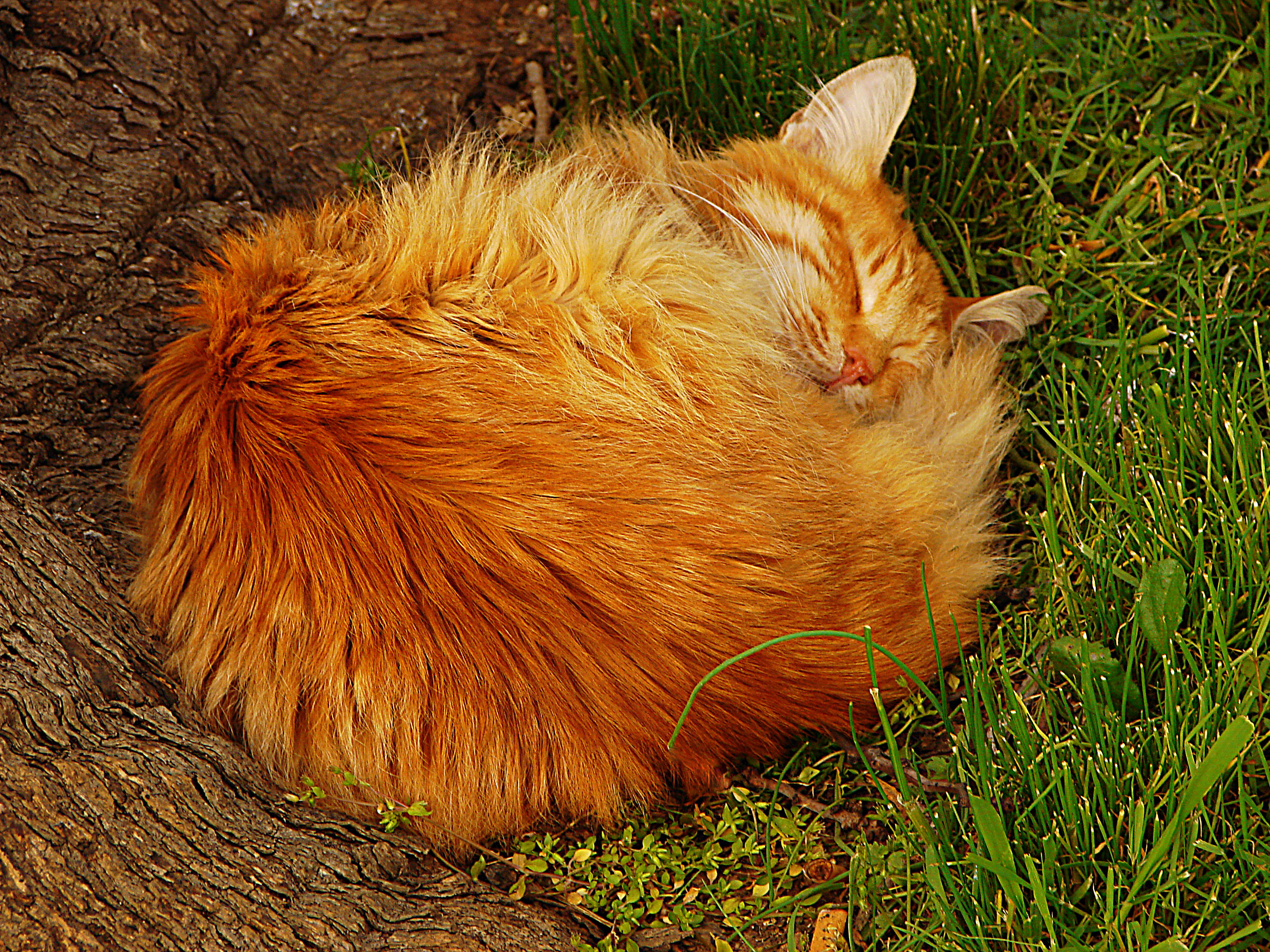 Sleepy Cat